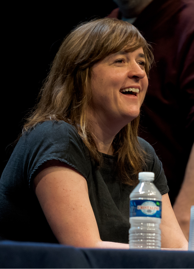 Crop of this photo with Seb Chan